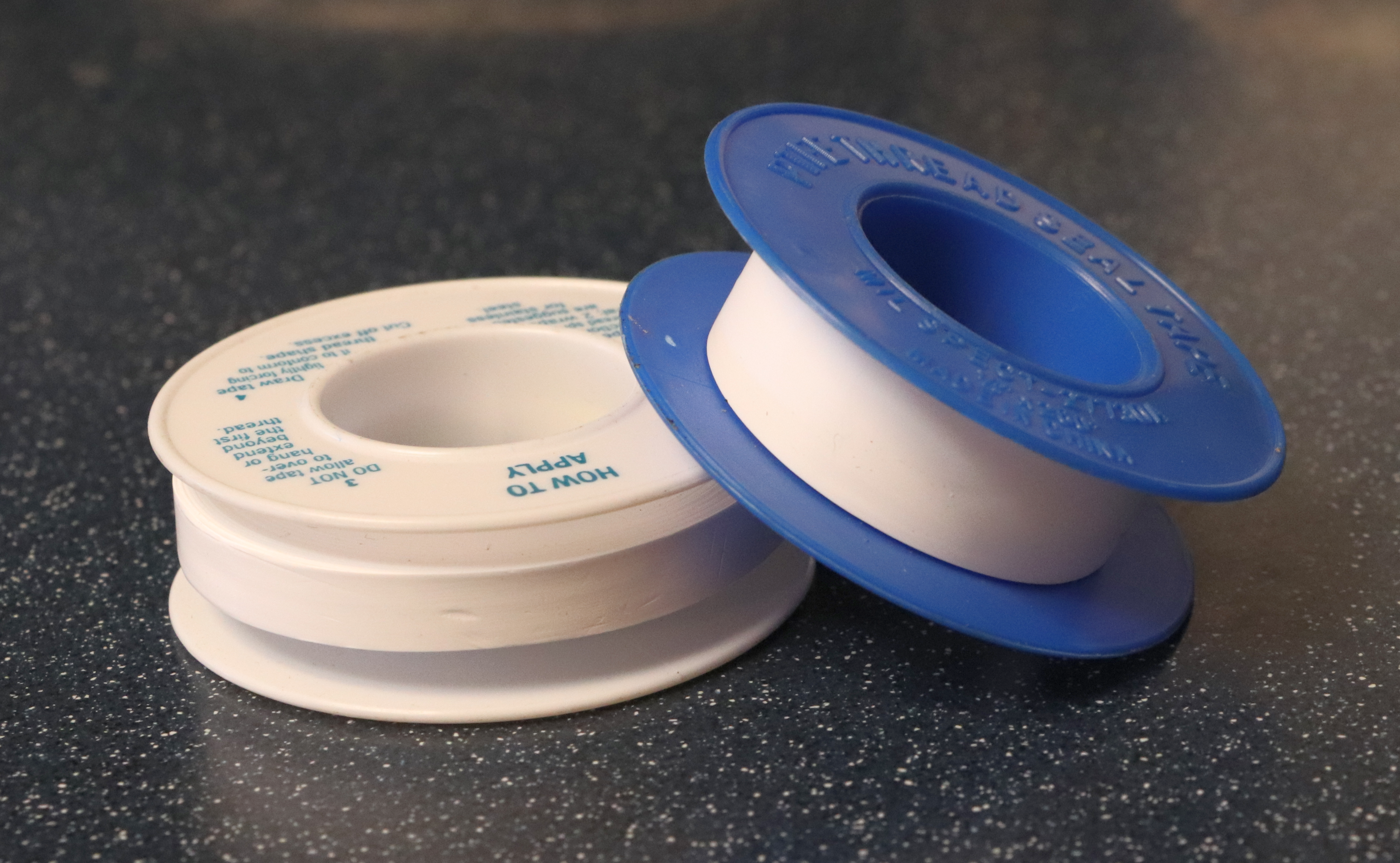 On the left, roll of PTFE tape for smaller fittings, -4 and -2. On the right, tape for -8 and larger fittings.